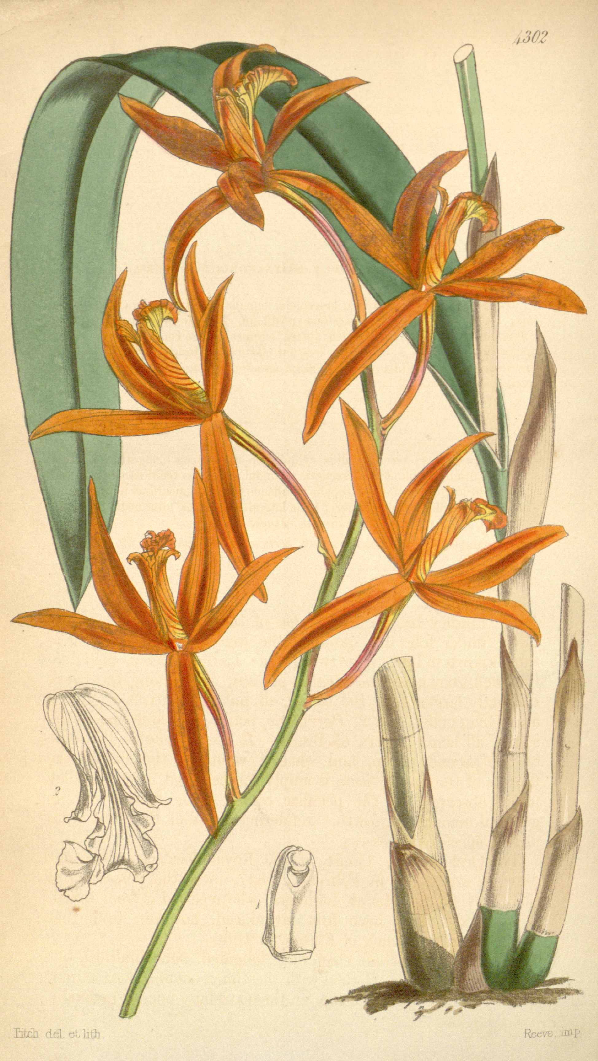 This is a plate from Curtis's Botanical Magazine, Volume 73.